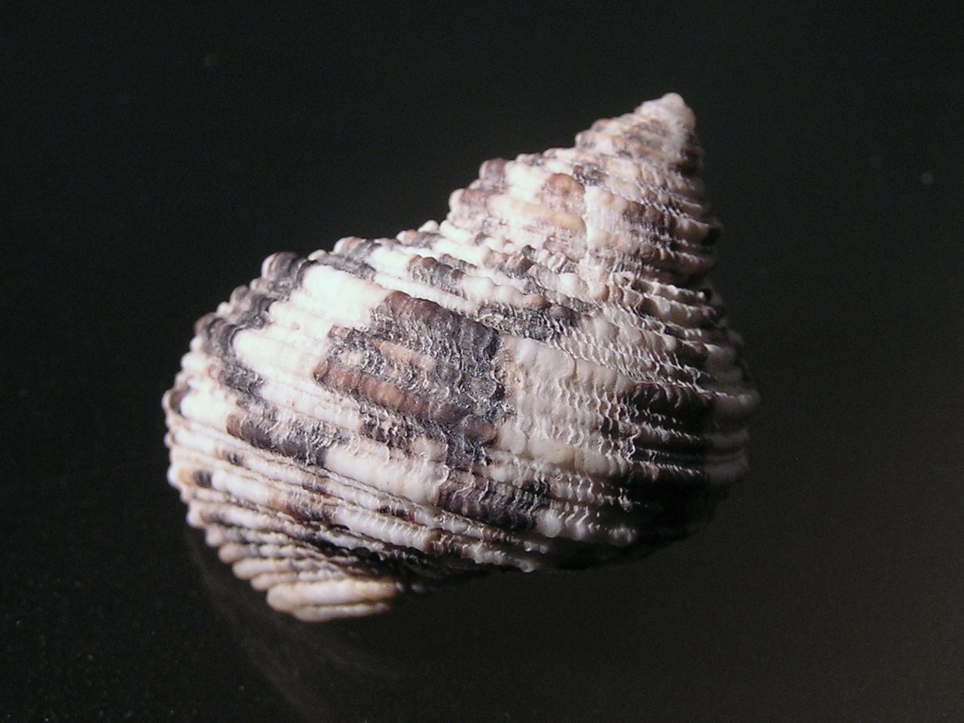 Turbo ticaonicus Reeve, 1848, a turbid snail from the family Turbinidae; Singapore